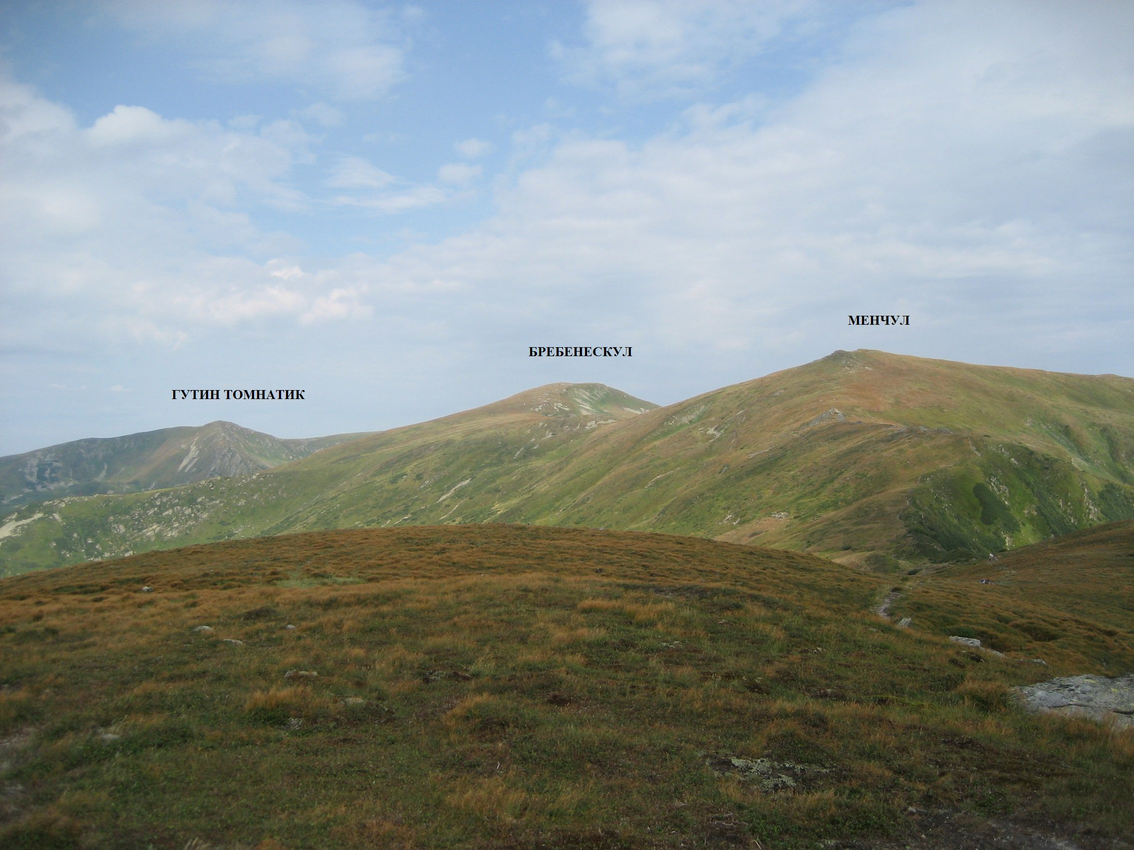 Hutyn Tomnatyk, Brebeneskul and Menchul, peaks in Chornohora range